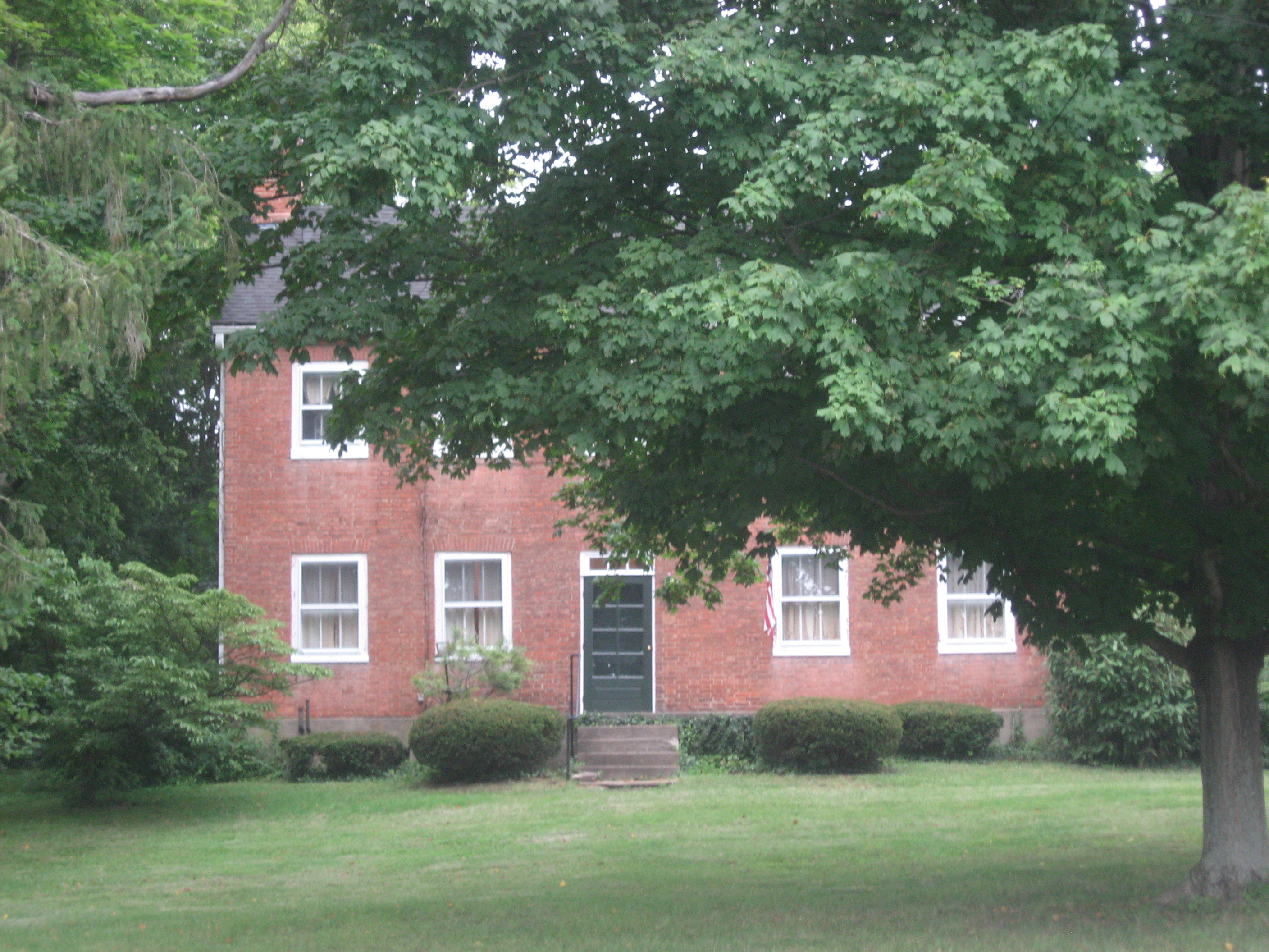 Front of the John Vaughan House, located at 3756 Hamilton-New London Road in Shandon in Morgan Township, Butler County, Ohio, United States. Built in 1814, it is listed on the National Register of Historic Places.